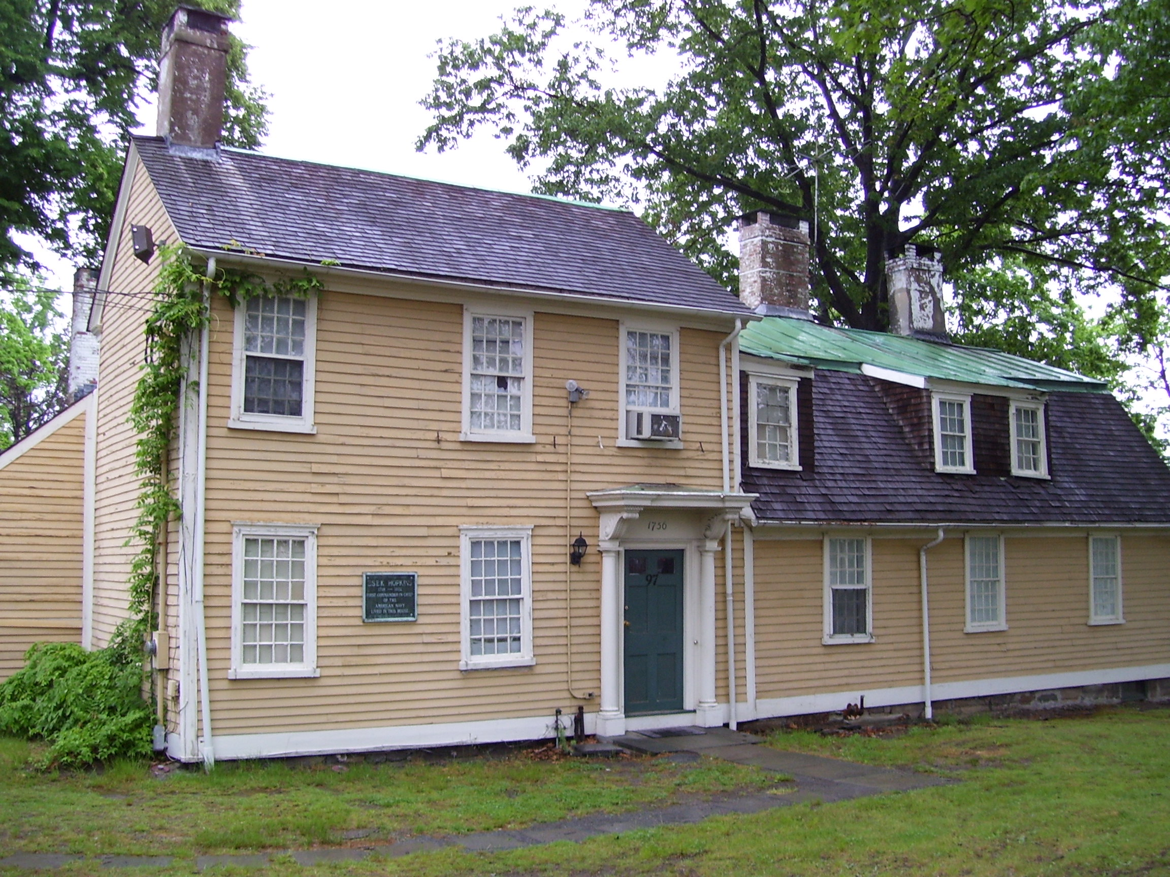 This is my 2008 photo of the Esek Hopkins House in Providence.